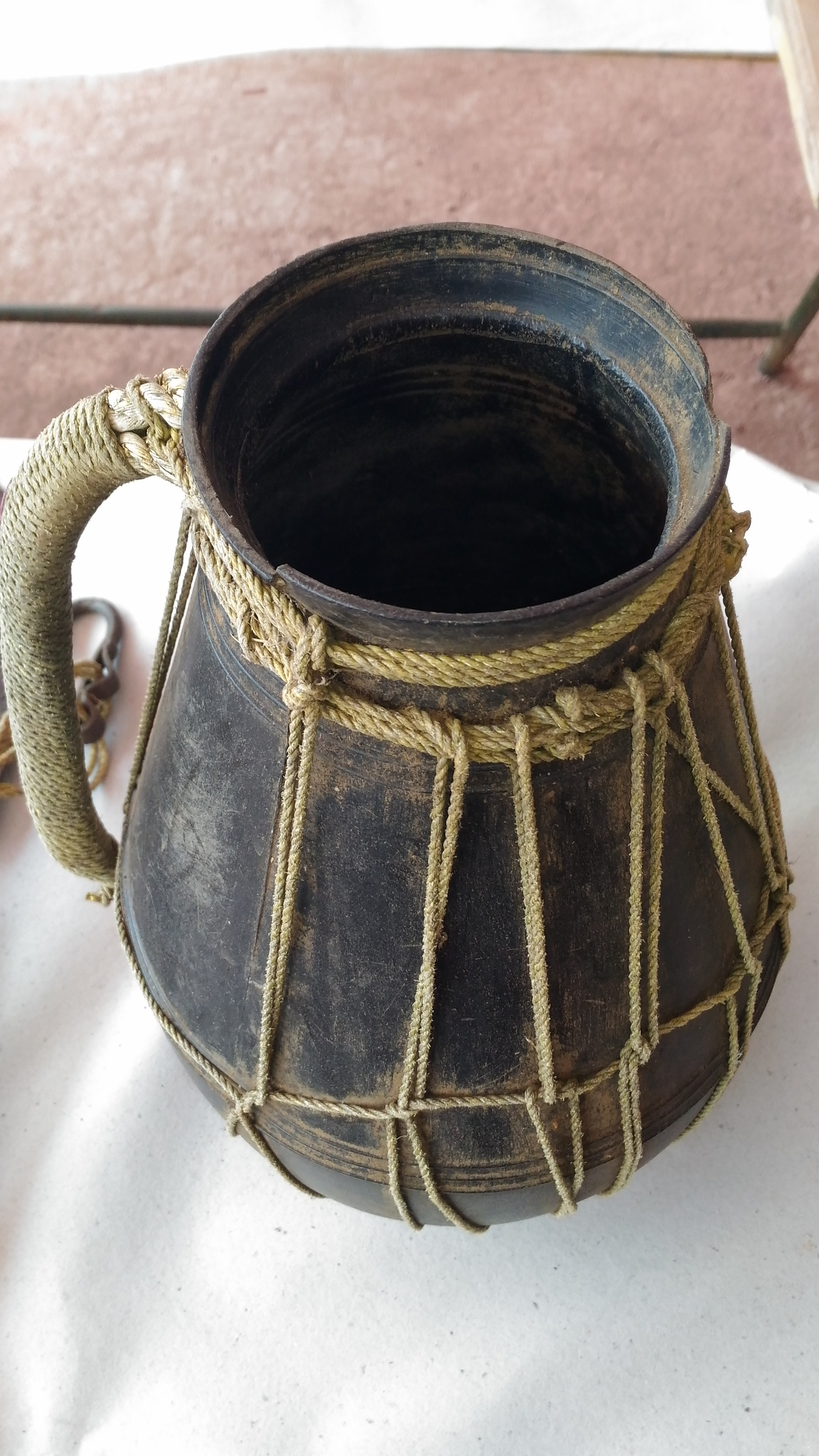 A pitcher used to collect toddy from palms